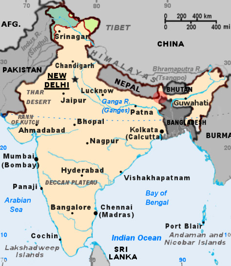 The Chicken's Neck–also known as the Siliguri Corridor—is a narrow strip of land, 24 kilometres (15 mi) in width separating India from its northeast states. The area is marked in red. Note that the disputed region of Jammu and Kashmir is divided between India, China, and Pakistan (the coloured areas represent the parts which are not under control of India).